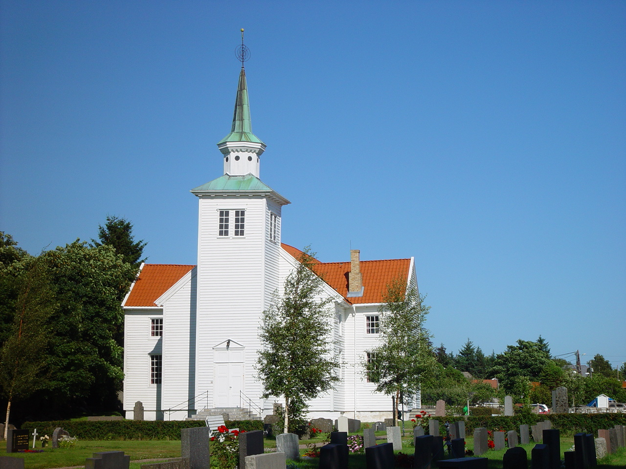 Spangereid church, Lindesnes, Norway.